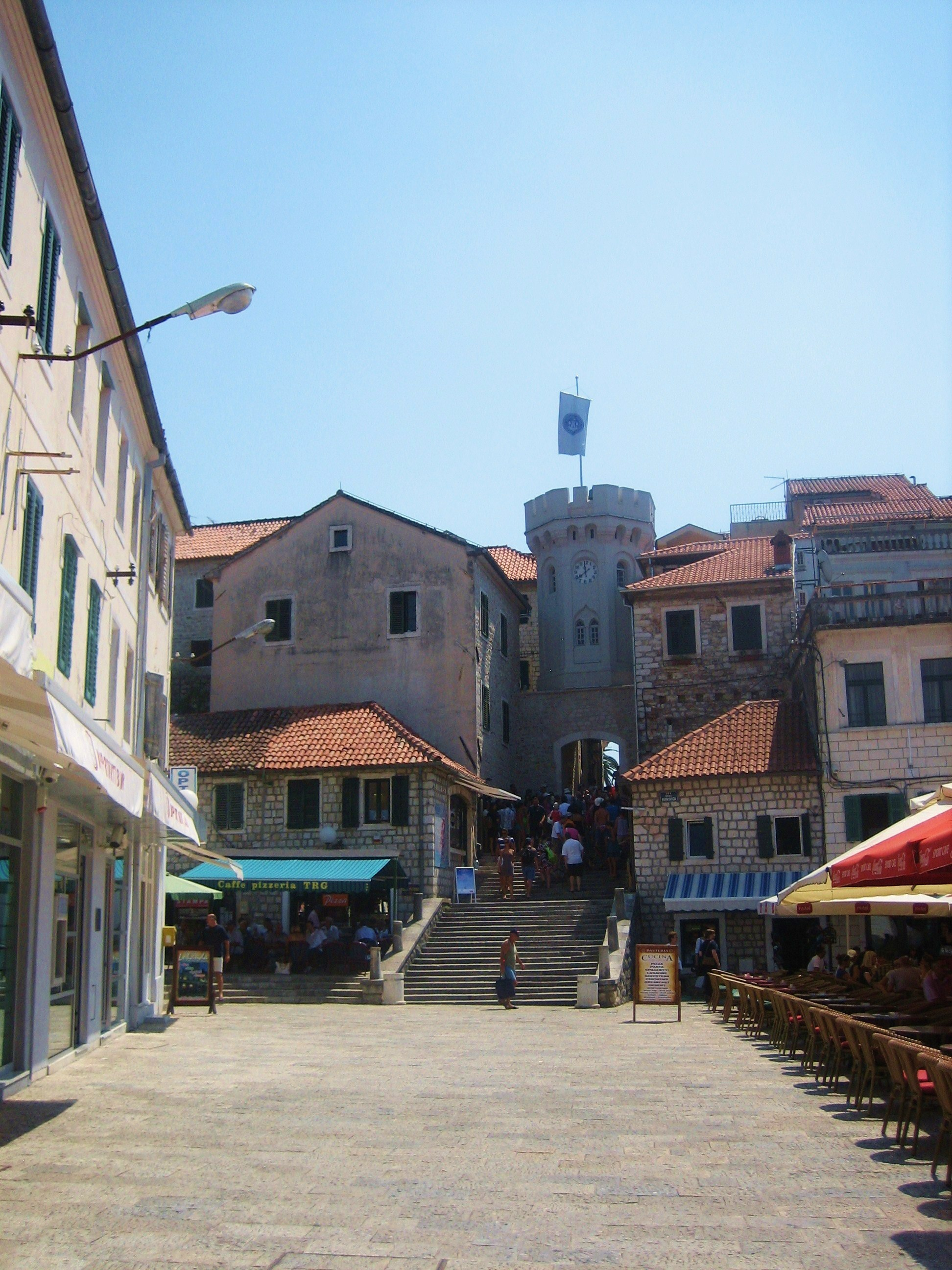 Trg Nikole Đurkovića in Herceg Novi, Montenegro